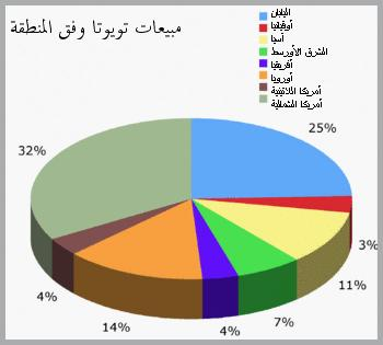 Picture of Toyota sales in Arabic.